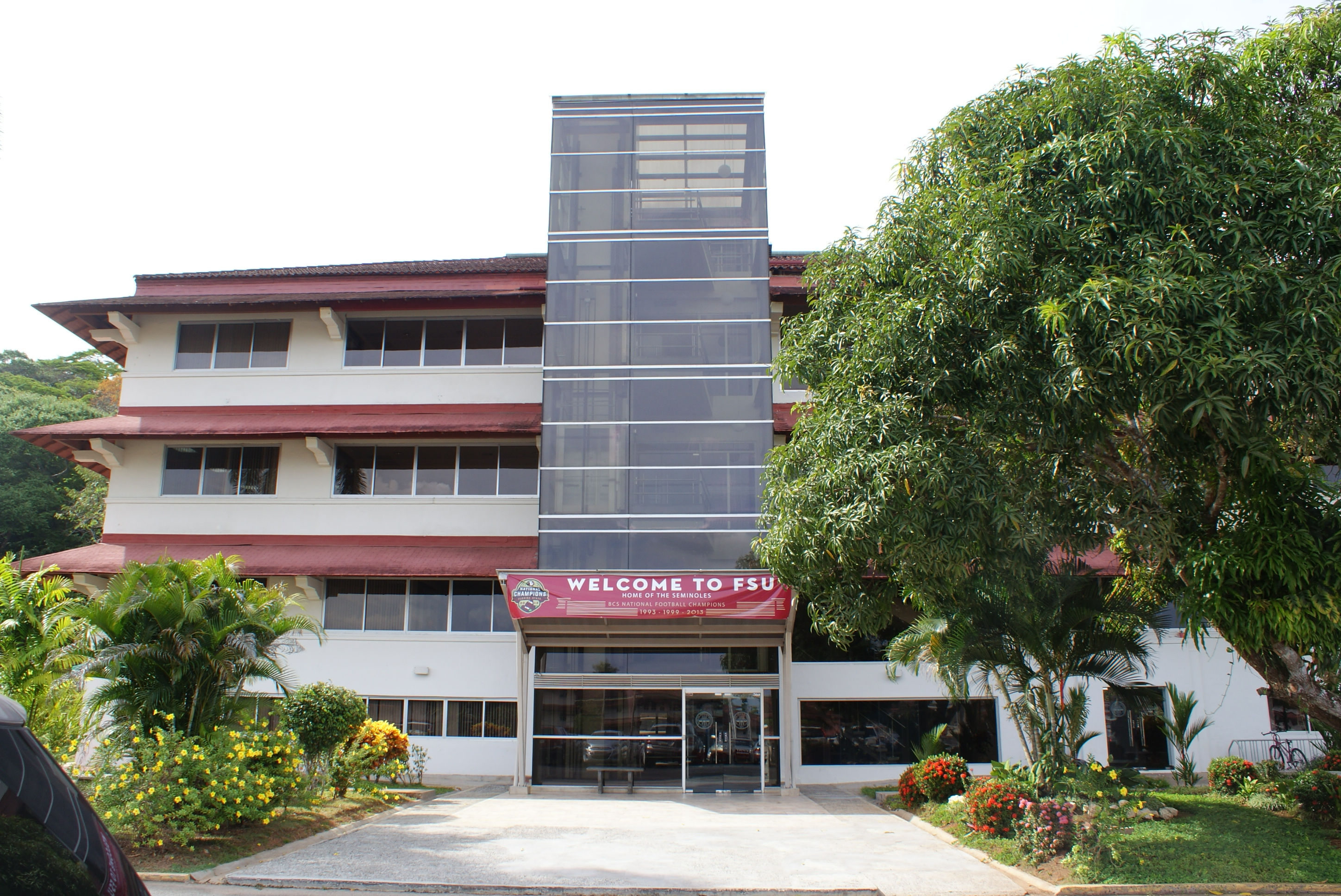 The new and renovated campus.